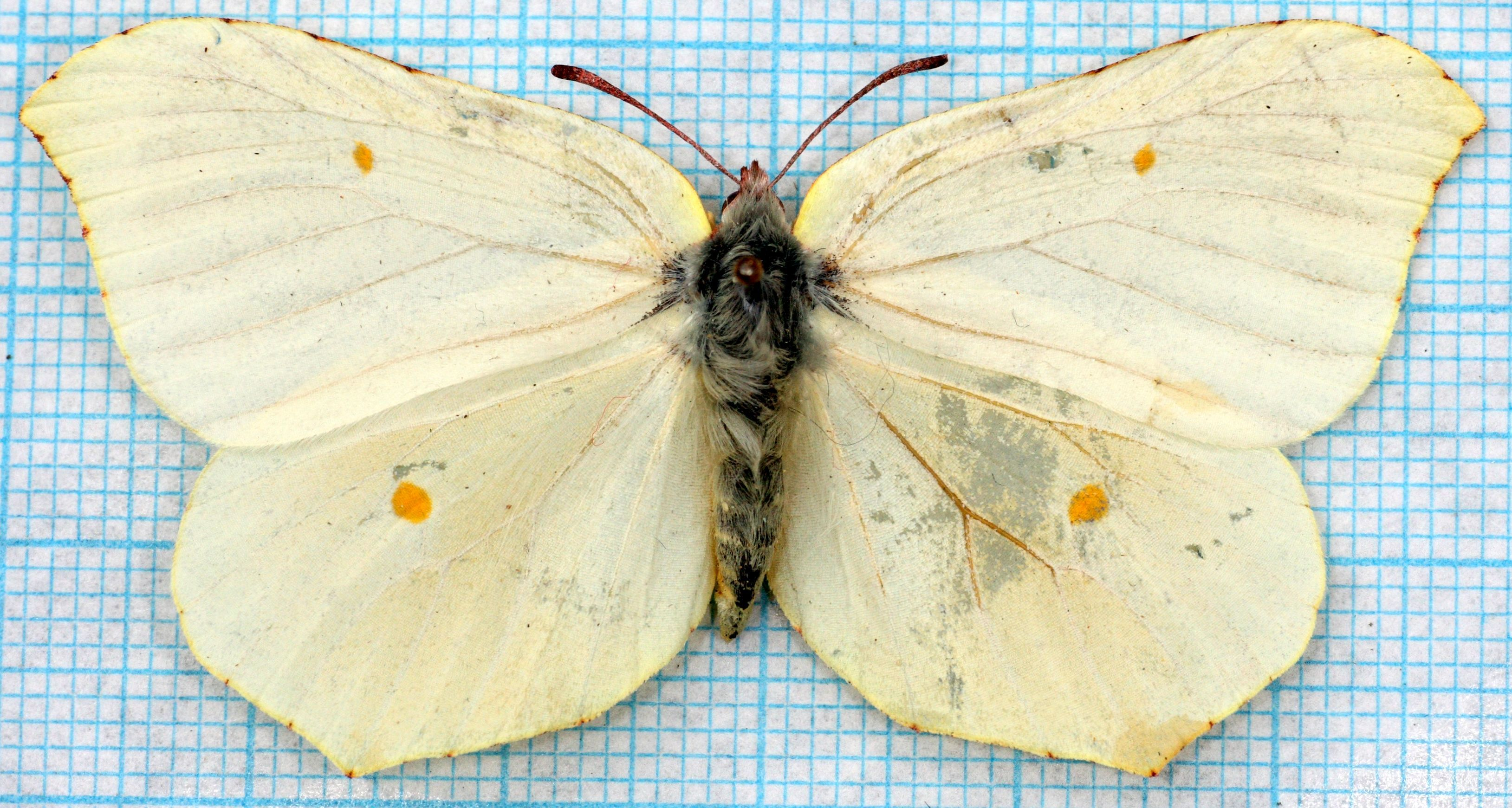 Female Common Brimstone Gonepteryx rhamni